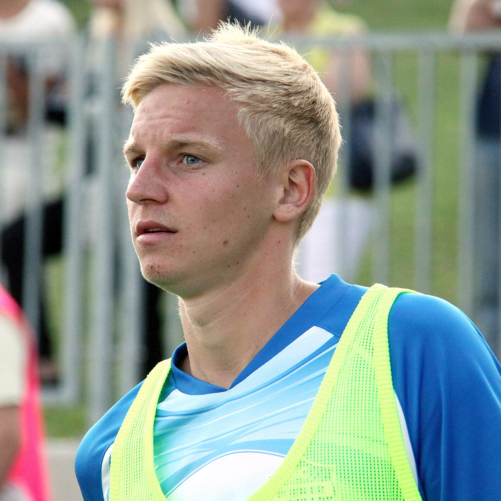 The foto shows Willi Evseev (SC Wiener Neustadt